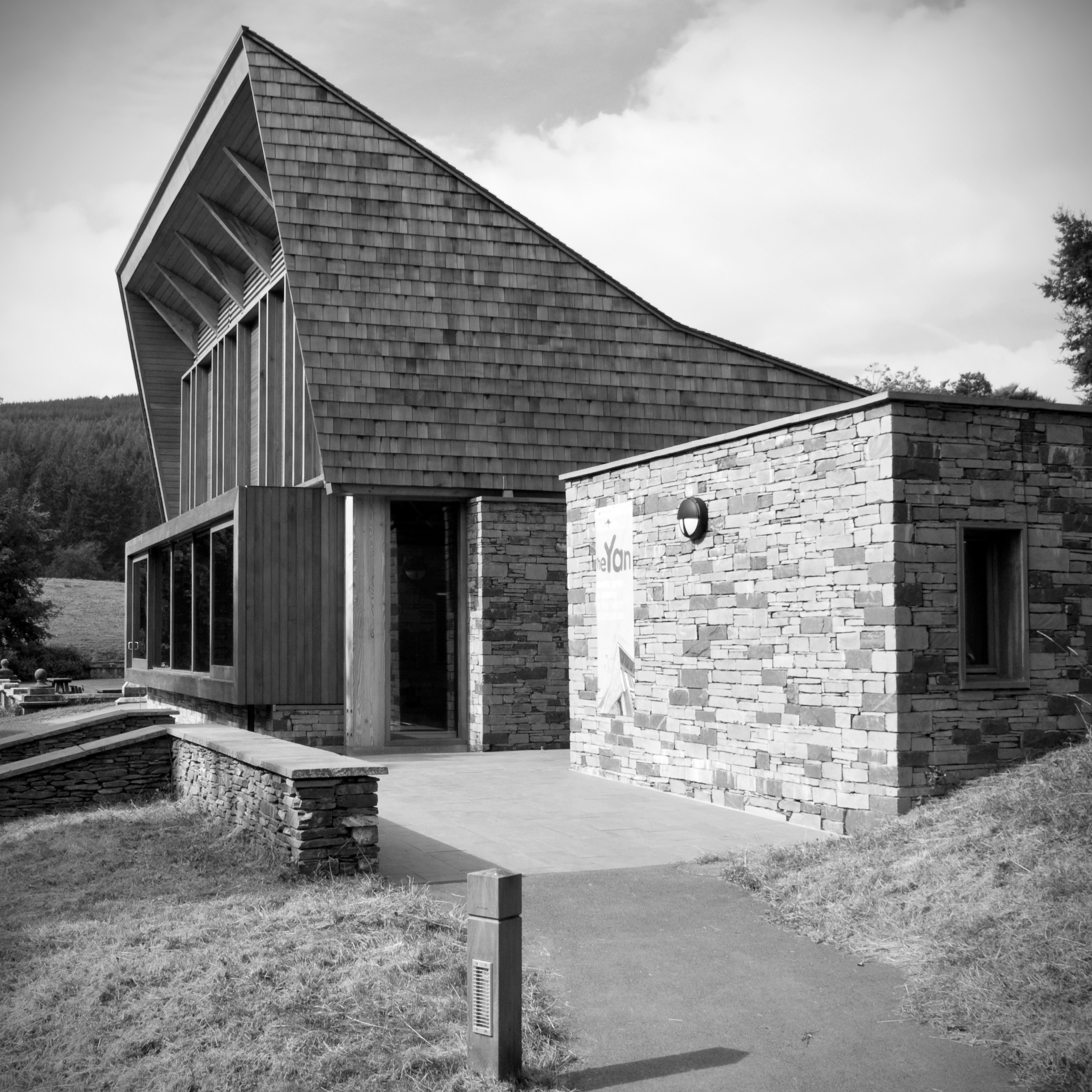 The Yan educational building at Grizedale forest Cumbria Sutherland Hussey Architects